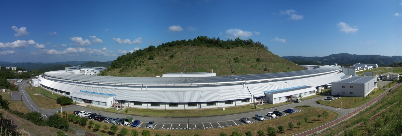 Circumference ring of SPring-8, which is synchrotron radiation facility located in Hyogo Prefecture, Japan.